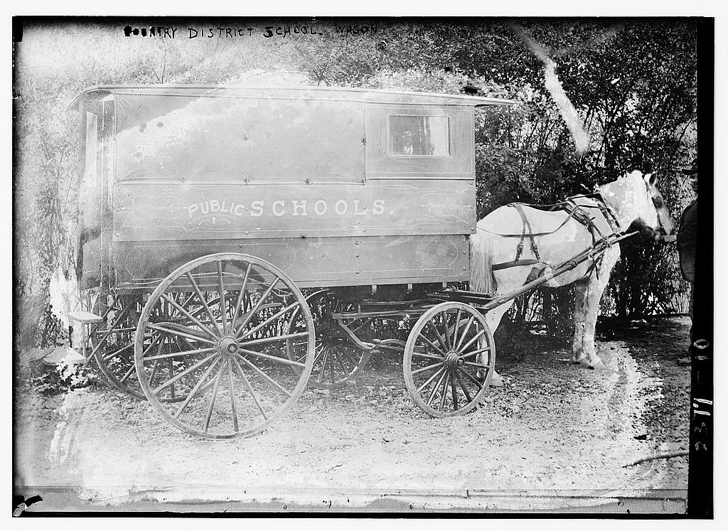 Country District School Wagon